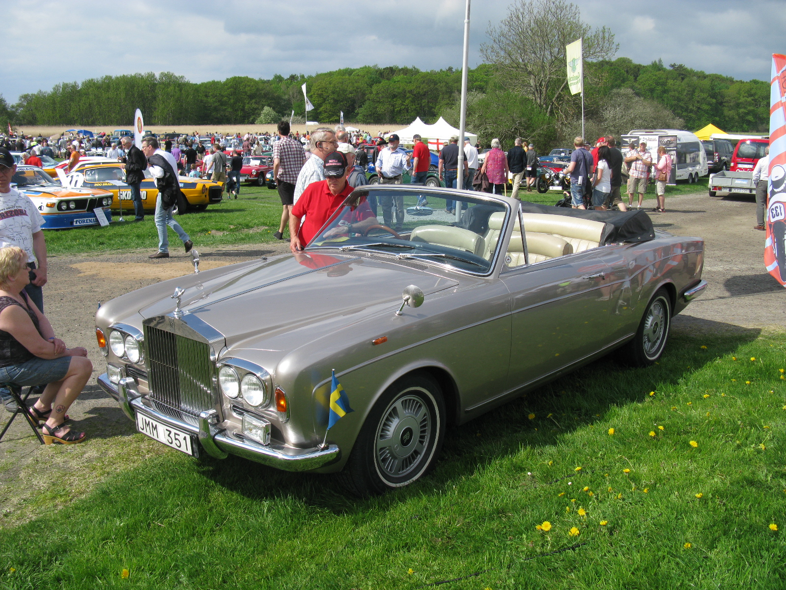 Rolls Royce Corniche